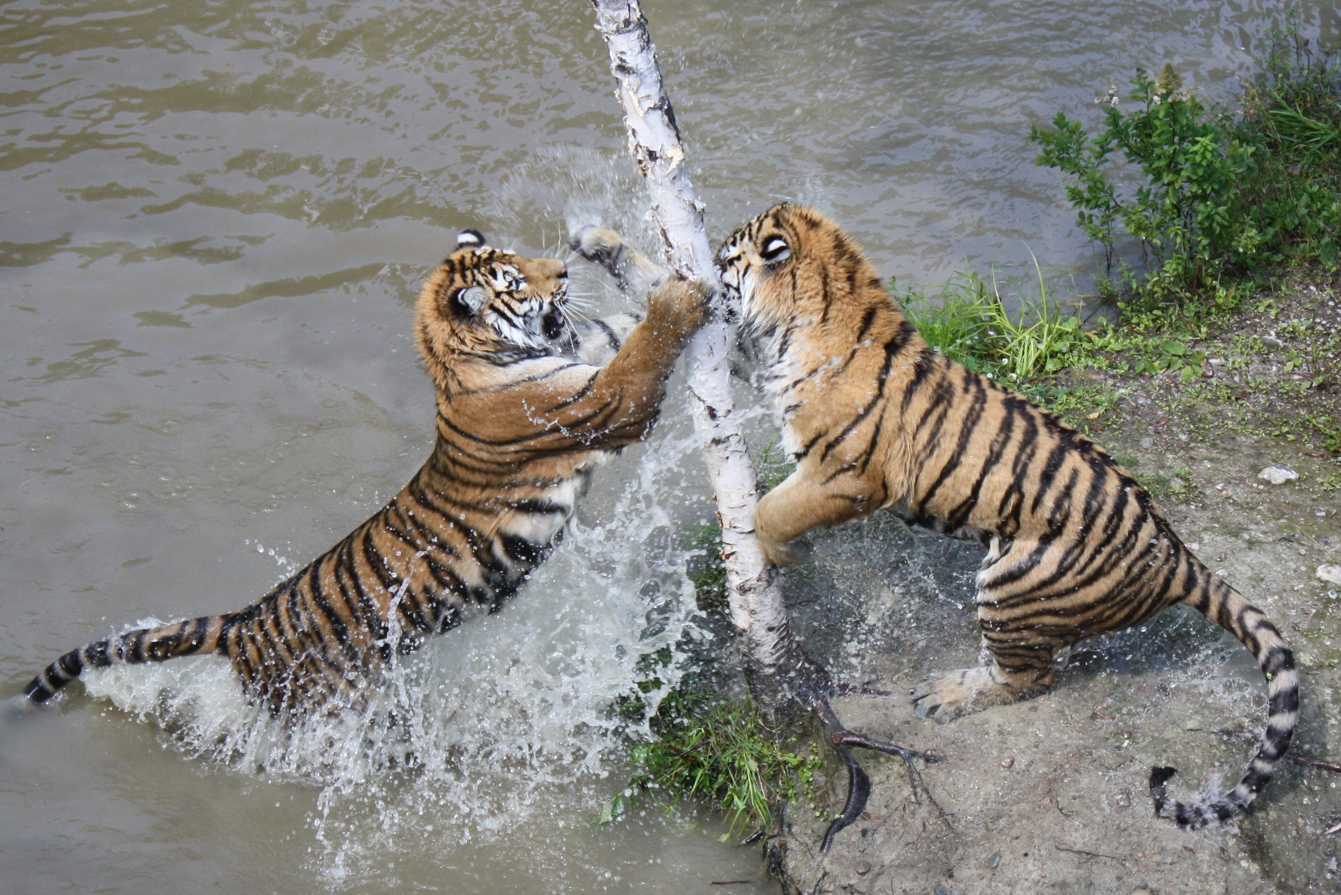 Jeu de tigres - Zoo sauvage de St-Félicien, Québec, Canada